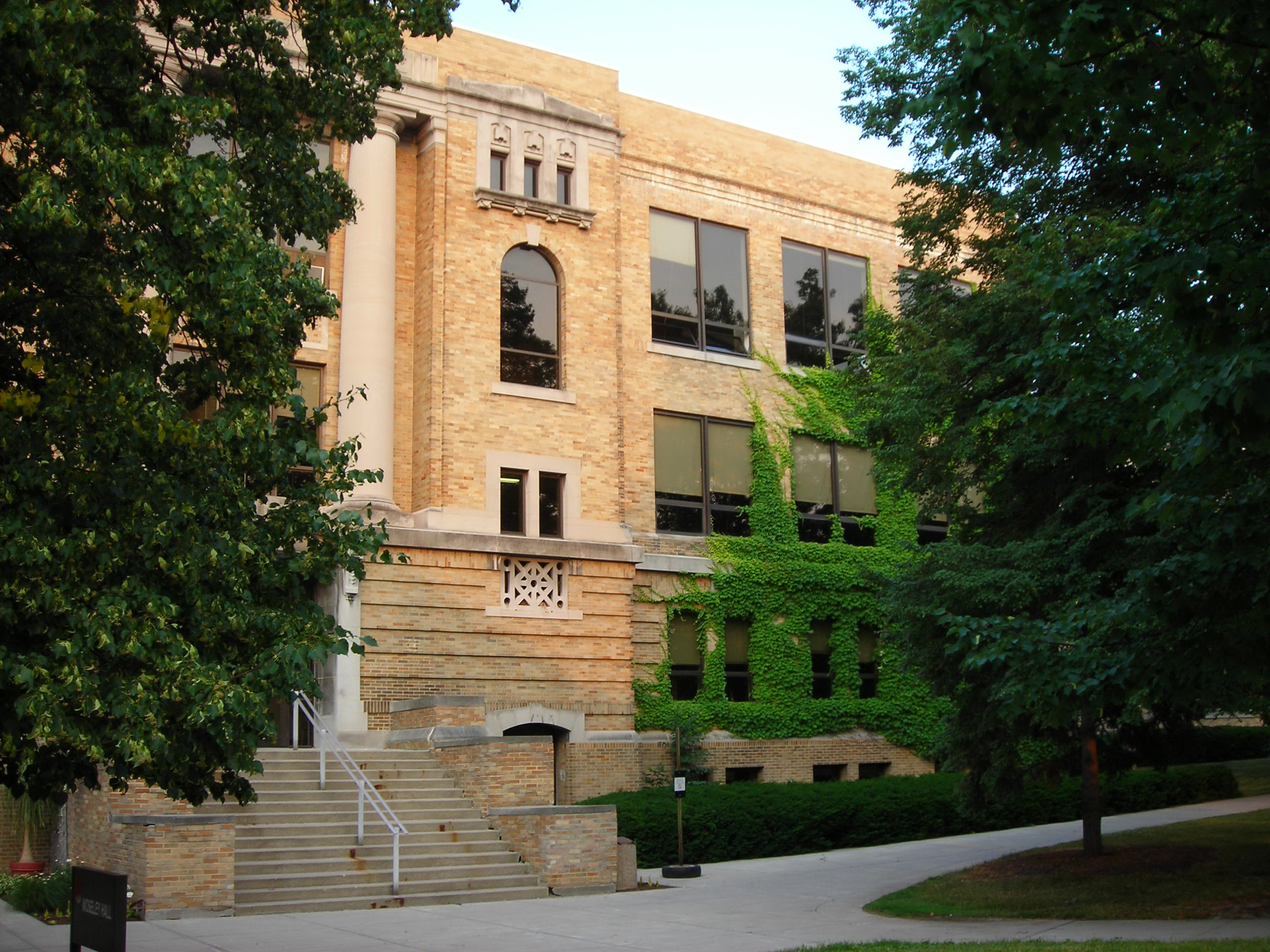 Moseley Hall on campus of Bowling Green State University